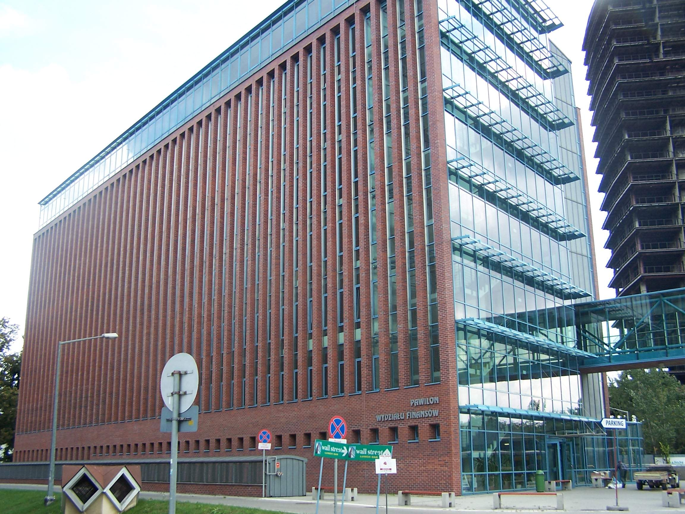 Photo by Piotrus. Academy of Economics in Kraków. Building F, also known as Finance Department Building (Pawiolon Wydziały Finansów). The newest building on campus. Szkieletor ruin is visible in the background (right).